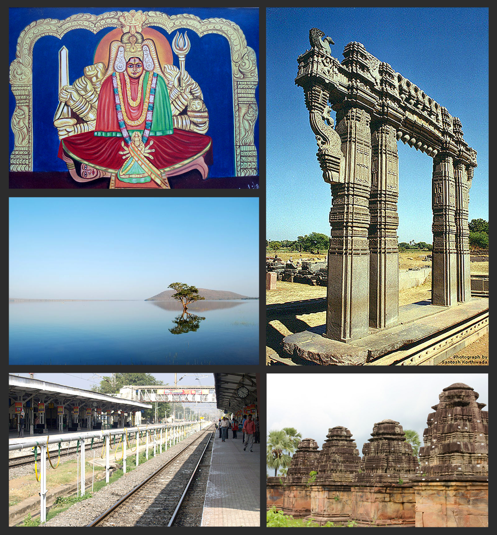 Warangal District Montage with Images from wikimedia commons